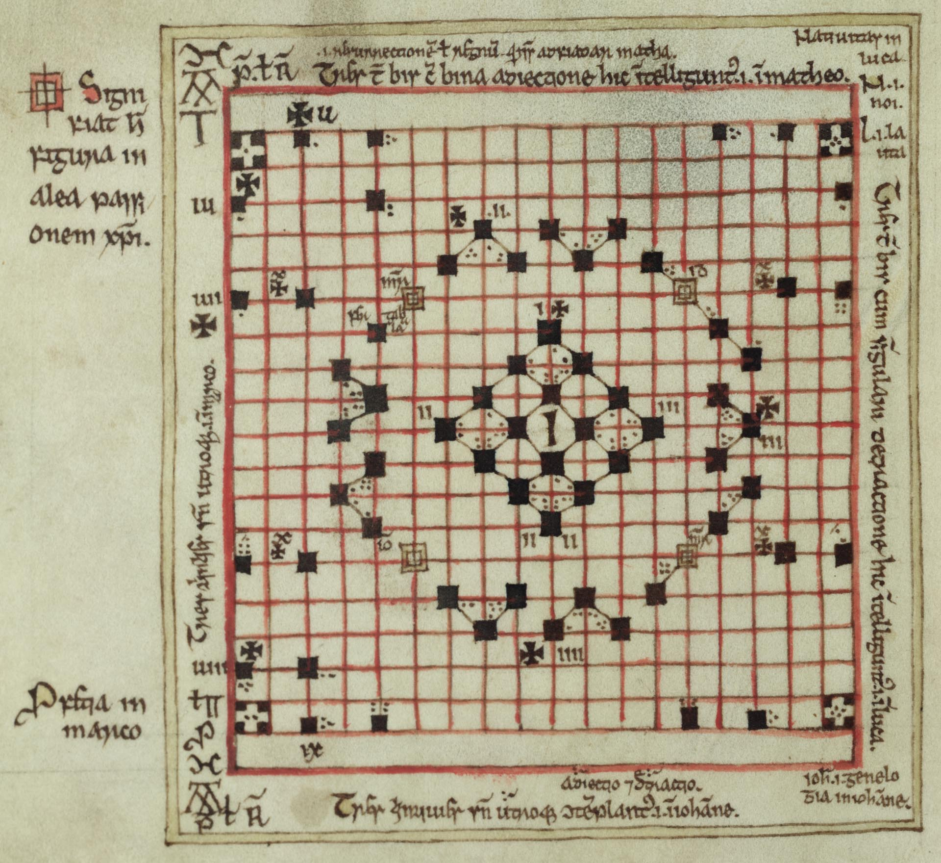 Picture of the board game Gospel Dice, played at the court of King Æthelstan, in a twelfth-century Irish Gospel Book in Corpus Christi College, Oxford, MS 122, fol 5.